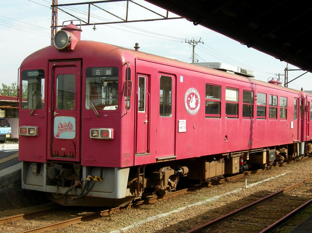 Kurihara Den-en railway KD951 (diesel car)